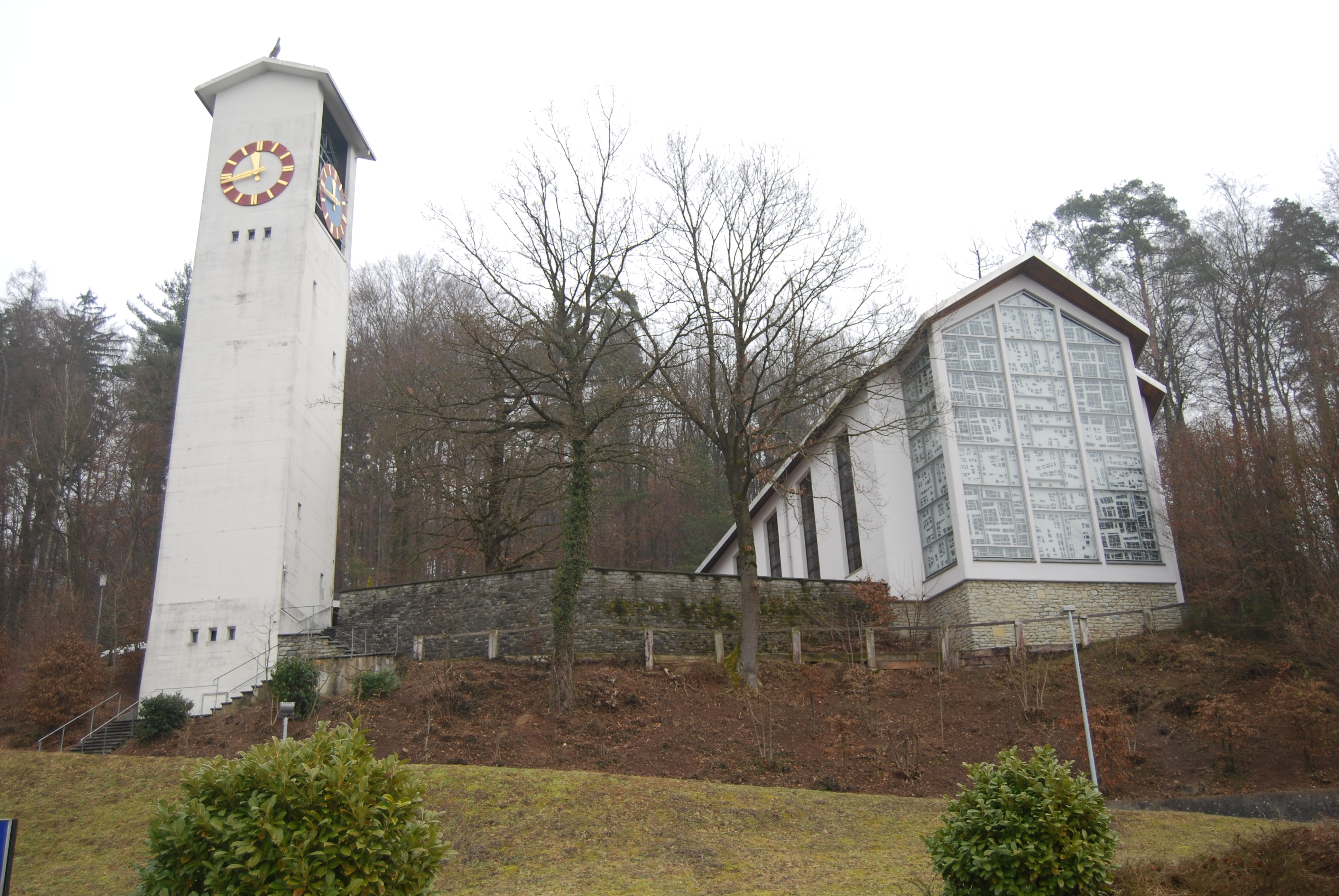 Protestant church of Muhen, canton of Aargau, SwitzerlandEsperanto: Reformita preĝejo de Muhen, Kantono Argovio, Svislando